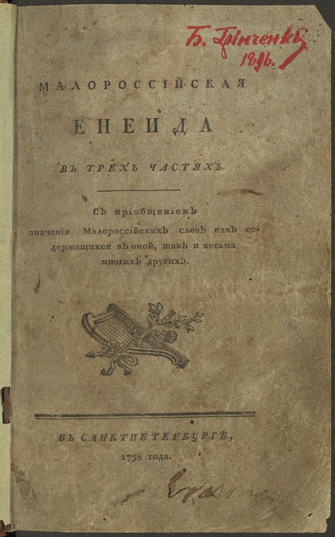 First edition of Ivan Kotlyarevsky's Eneyida.